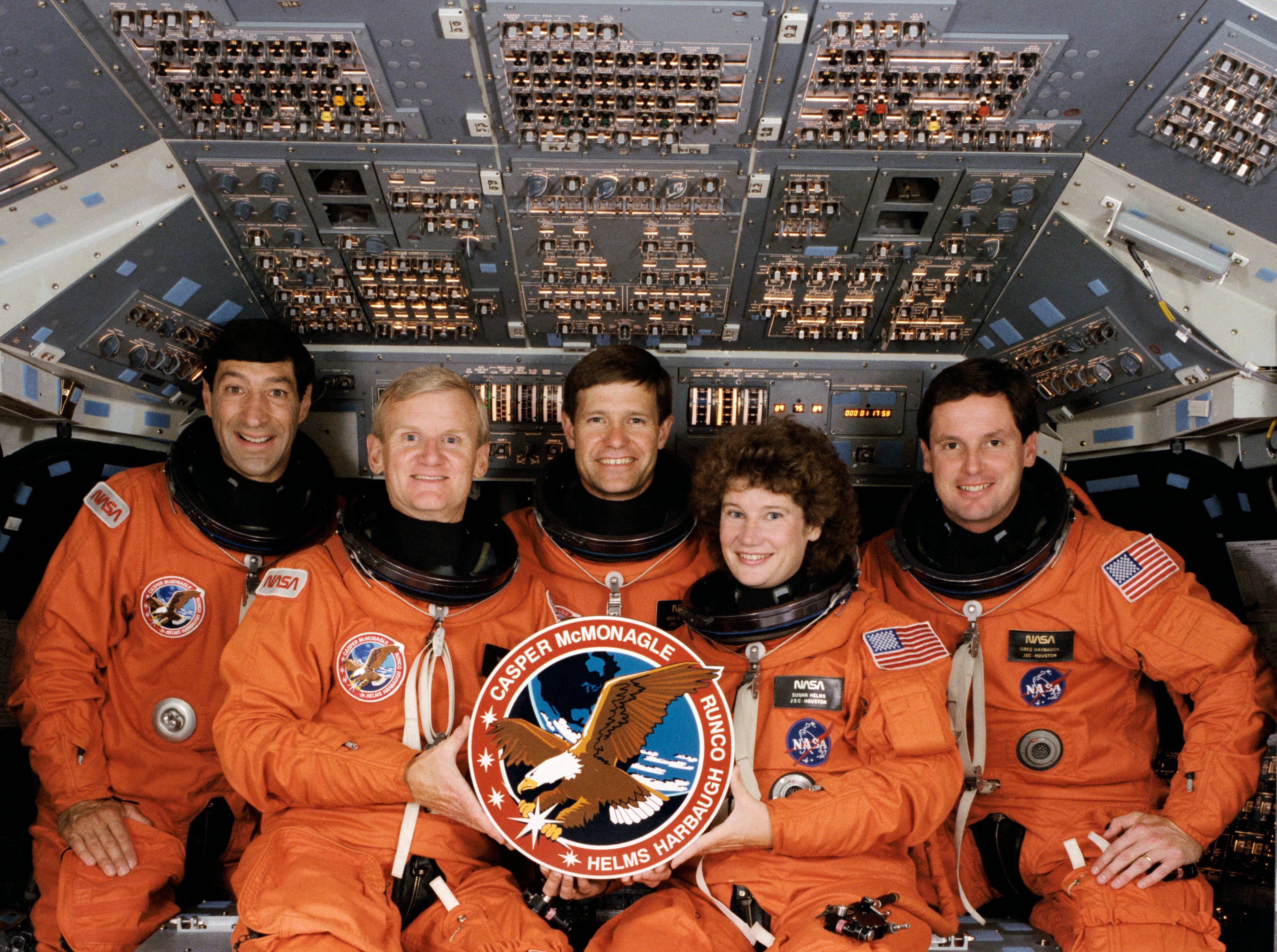 Astronauts pictured in the STS-54 crew portrait from left to right are: Mario Runco, Jr., mission specialist; John H. Casper, commander; Donald R. McMonagle, pilot; and mission specialists Susan J. Helms, and Gregory J. Harbaugh. Launched aboard the Space Shuttle Endeavour on January 13, 1993 at 8:59:30 am (EST), the crew deployed the fifth Tracking and Data Relay Satellite (TDRS-6).